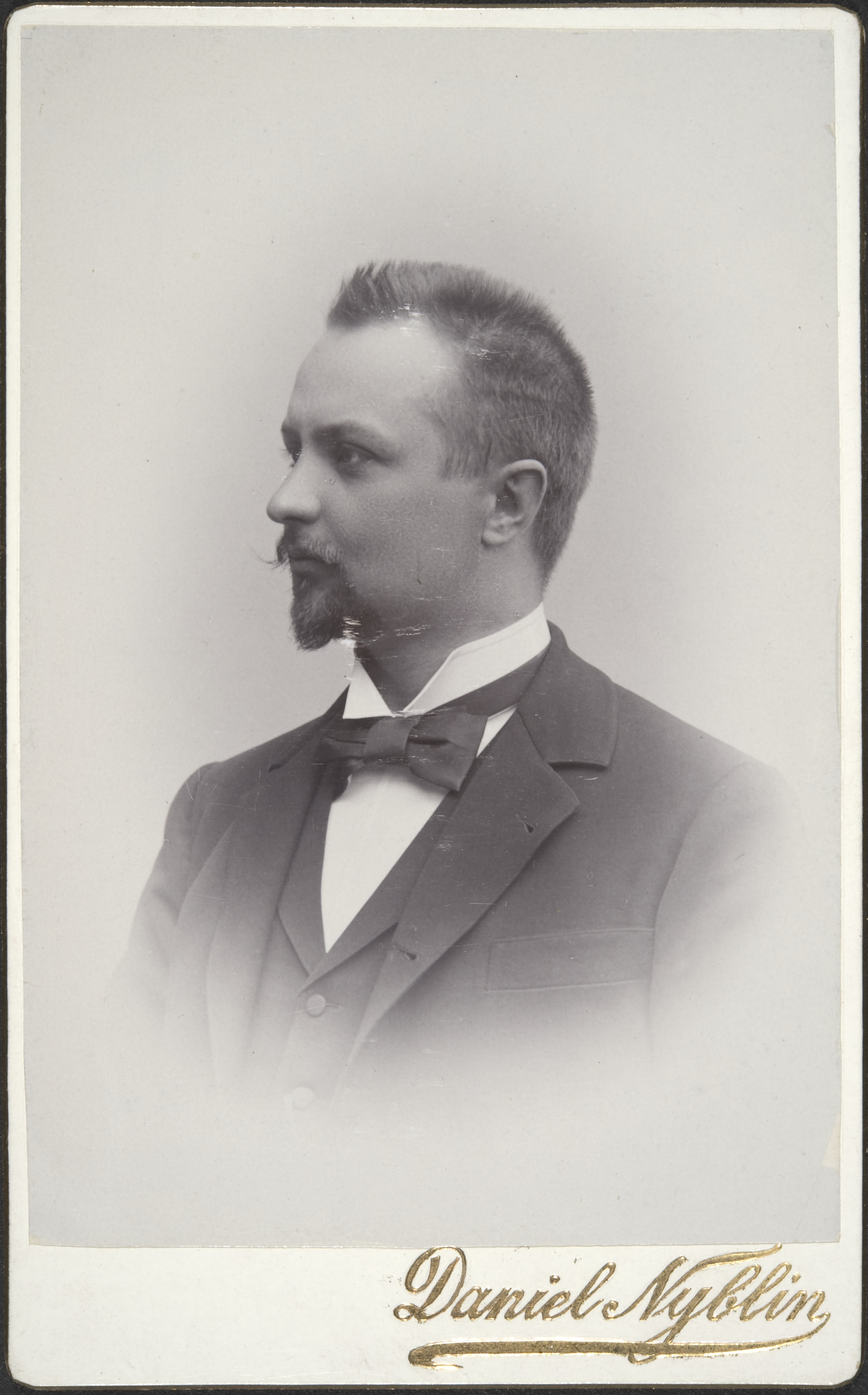 Photograph of the Finnish geologist Benjamin Frosterus (1866–1931).